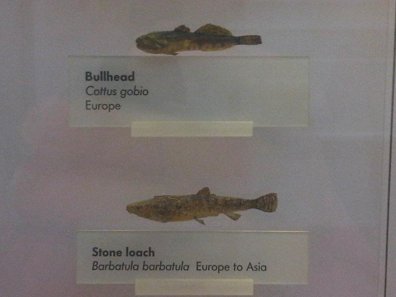 Taxidermied fish at the Natural History Museum in London, England: up European bullhead (Cottus gobio) and down Stone Loach (Barbatula barbatula).